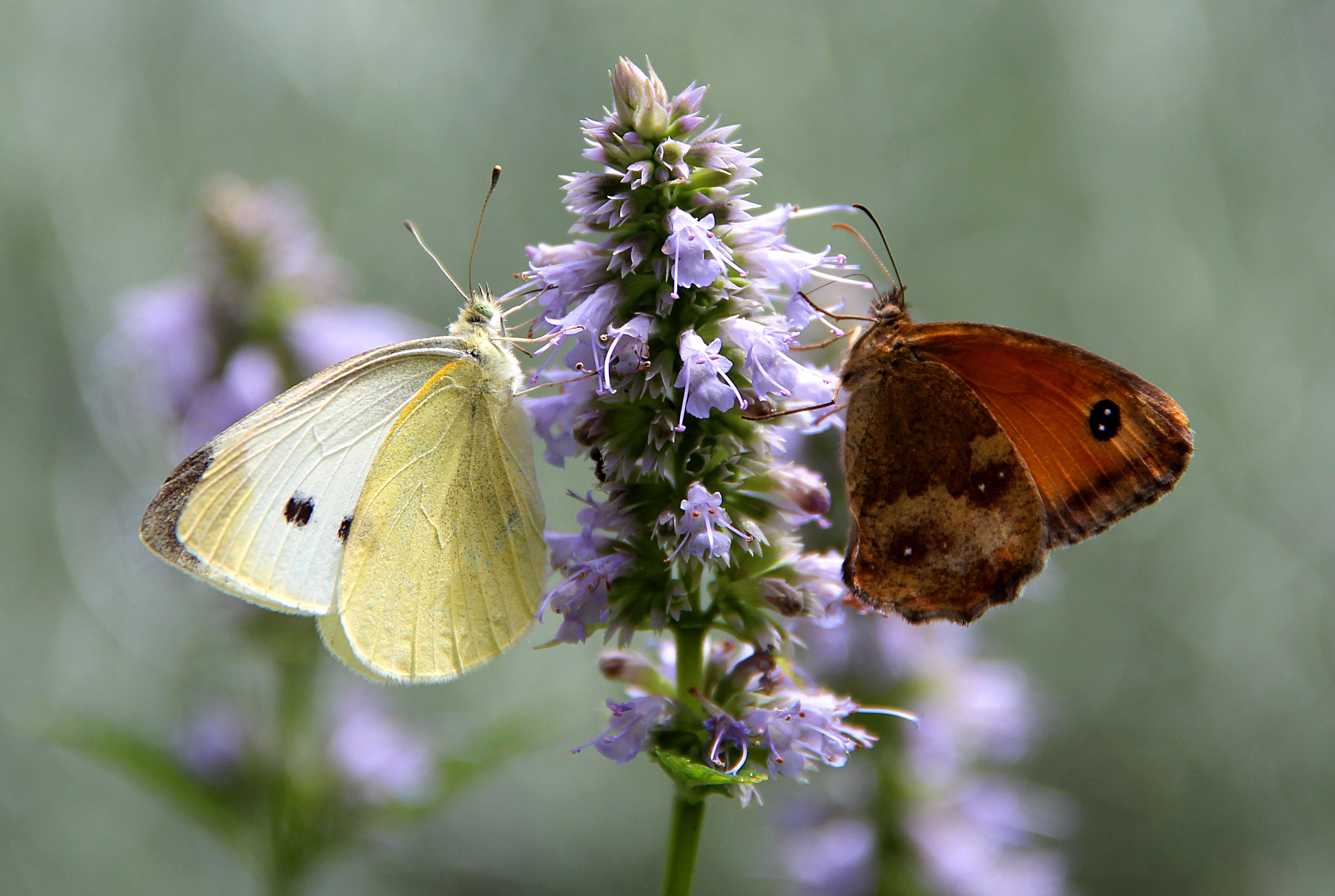 Small cabbage white (Pieris rapae) and Gatekeeper, (Pyronia tithonus) foraging flowery top of an Agastache foeniculum - Havré, Belgium